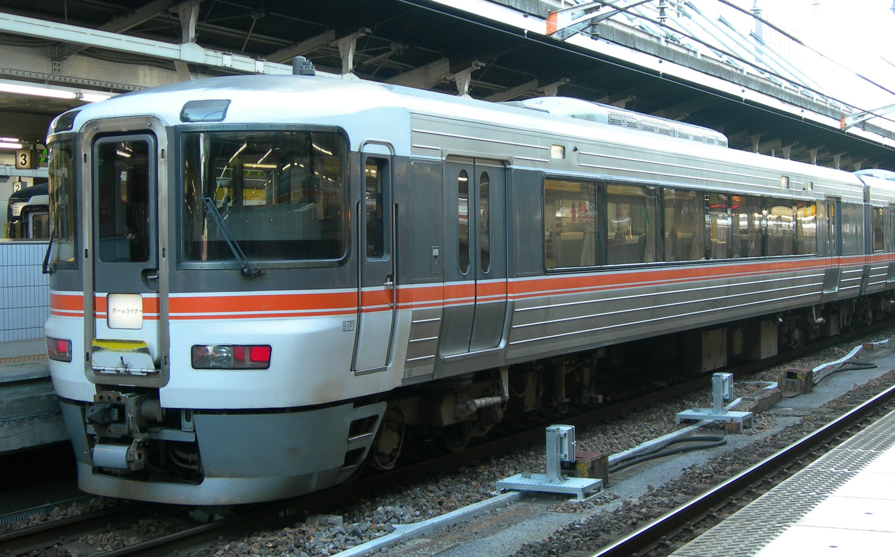 KuHa 372-11 of JR Central 373 series 3-car EMU set F11 at Nagoya Station